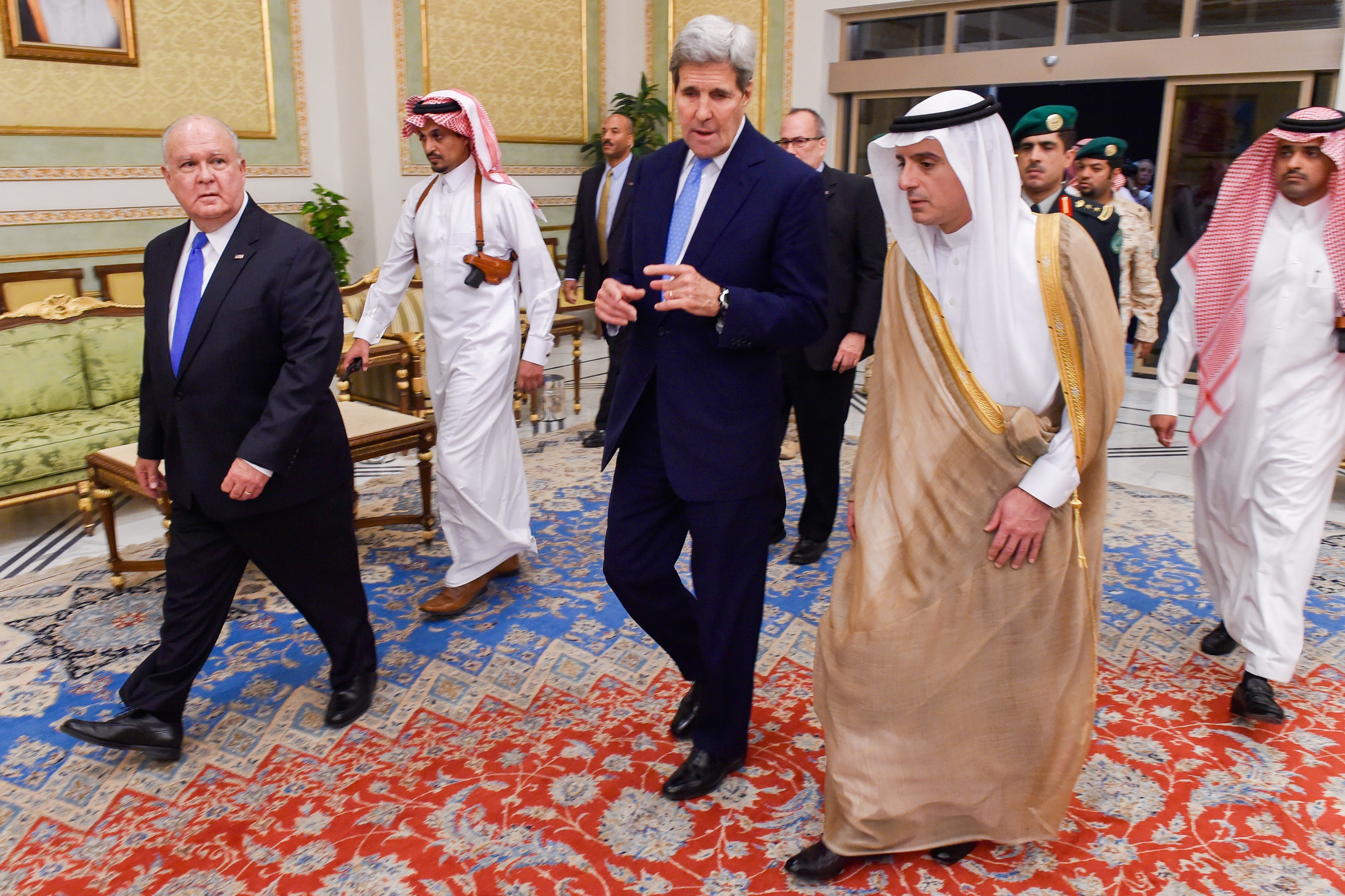 U.S. Secretary of State John Kerry walks with U.S. Ambassador to Saudi Arabia Joseph Westphal and Saudi Foreign Minister Adel al-Jubeir on October 24, 2015, at King Salman Regional Air Base, Riyadh, Saudi Arabia, before a bilateral meeting with King Salman and a broader session with al-Jubeir, Crown Prince Mohammed bin Nayif and Deputy Crown Prince Mohammed bin Salman. [State Department photo/ Public Domain]